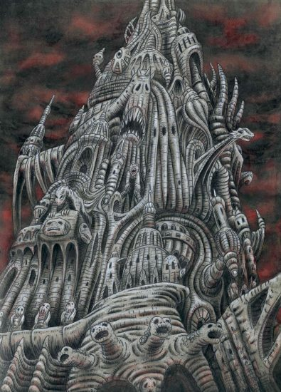 An artist's vision of a tower inspired by the myth of Cthulhu.